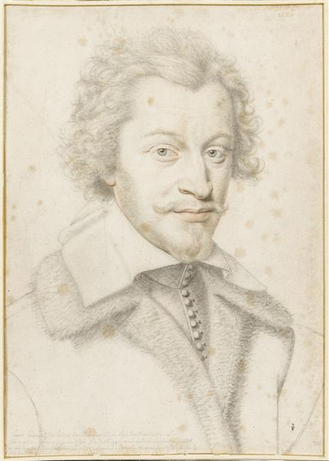 Louis-Emmanuel de Valois, Duke of Angoulême, pencil drawing, Musée Condé, Chantilly